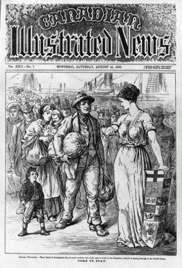 Canadian Illustrated News, Vol.XXII, No. 7, Page 97. Photo: From Library and Archives Canada. Title: Come to Stay Artist: Julien, Henri, 1852-1908 Date: 14 August, 1880 Pagination: vol.XXII, no. 7, 97 Notes: Canada welcomes these bands of immigrants who, in such numbers, last week, came to settle in the Dominion, instead of passing to the United States. Subject: Immigrants Record: 110